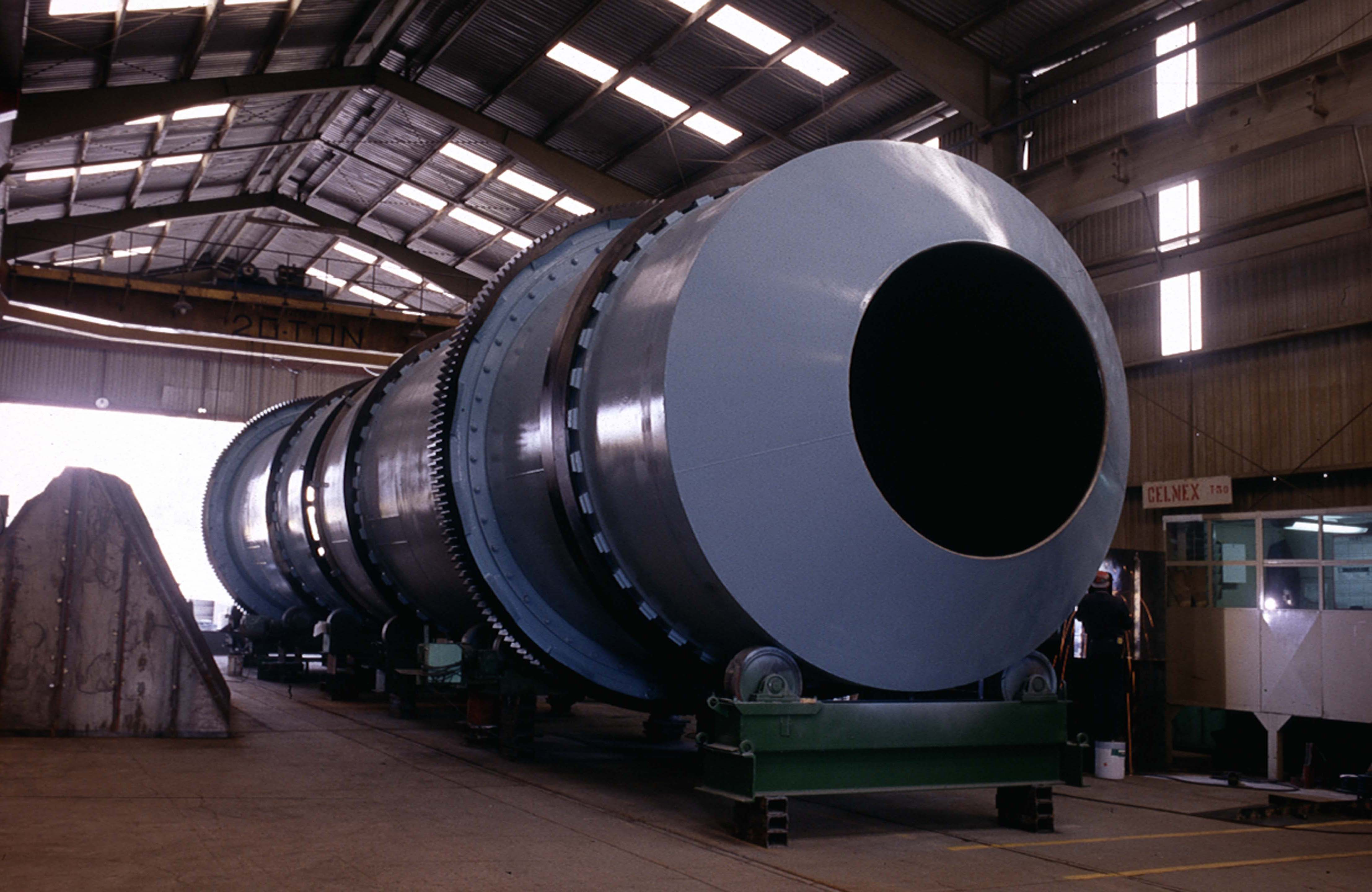 This photo shows a Rotary Dryer, manufactured by the Renneburg Division of Heyl & Patterson of Pittsburgh, PA.